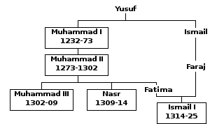 Genealogical table of Sultans (also called Kings and Emirs) of the Nasrid Dynasty, which ruled the Emirate of Granada (Kingdom of Granada) , up to the fifth Sultan, Ismail I (1314-1325), as well as other key dynastic members. Sultans are given in boxes, and years indicate their reigns. Source: Prescott, William H.; edited and annotated by Albert D. McJoynt (1995). The Art of War in Spain: The Conquest of Granada, 1481-1492. London: Greenhill Books. ISBN 1-85367-193-2. (An extract from Prescott's 1838 book History of the Reign of Ferdinand and Isabella the Catholic, updated with modern scholarship and commentary.)